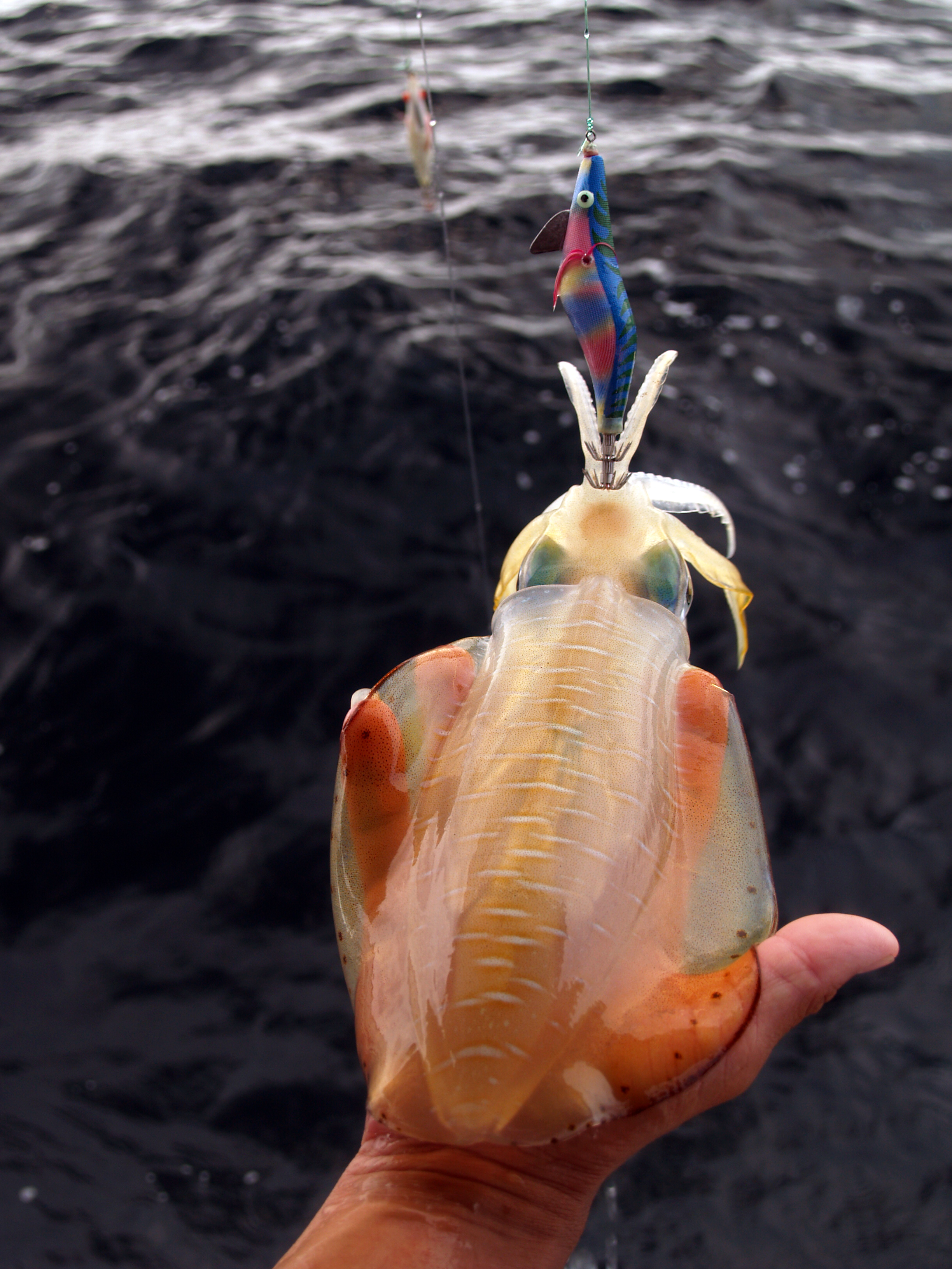 Squid fishing in the offshore waters of Pekan, Pahang. (Bigfin reef squid, Sepioteuthis lessoniana)